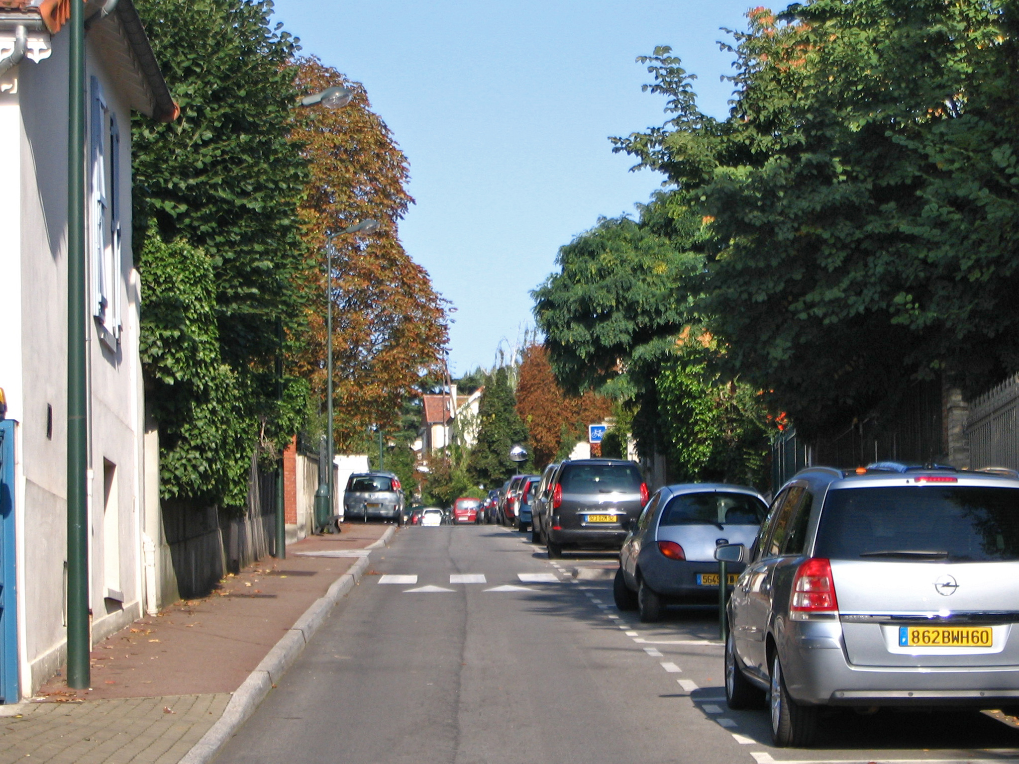 Athime Rue Street, in Garches, Hauts-de-Seine, France.